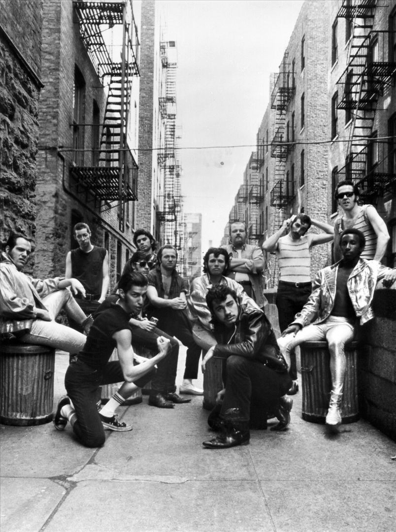 Photo of the musical group Sha Na Na.